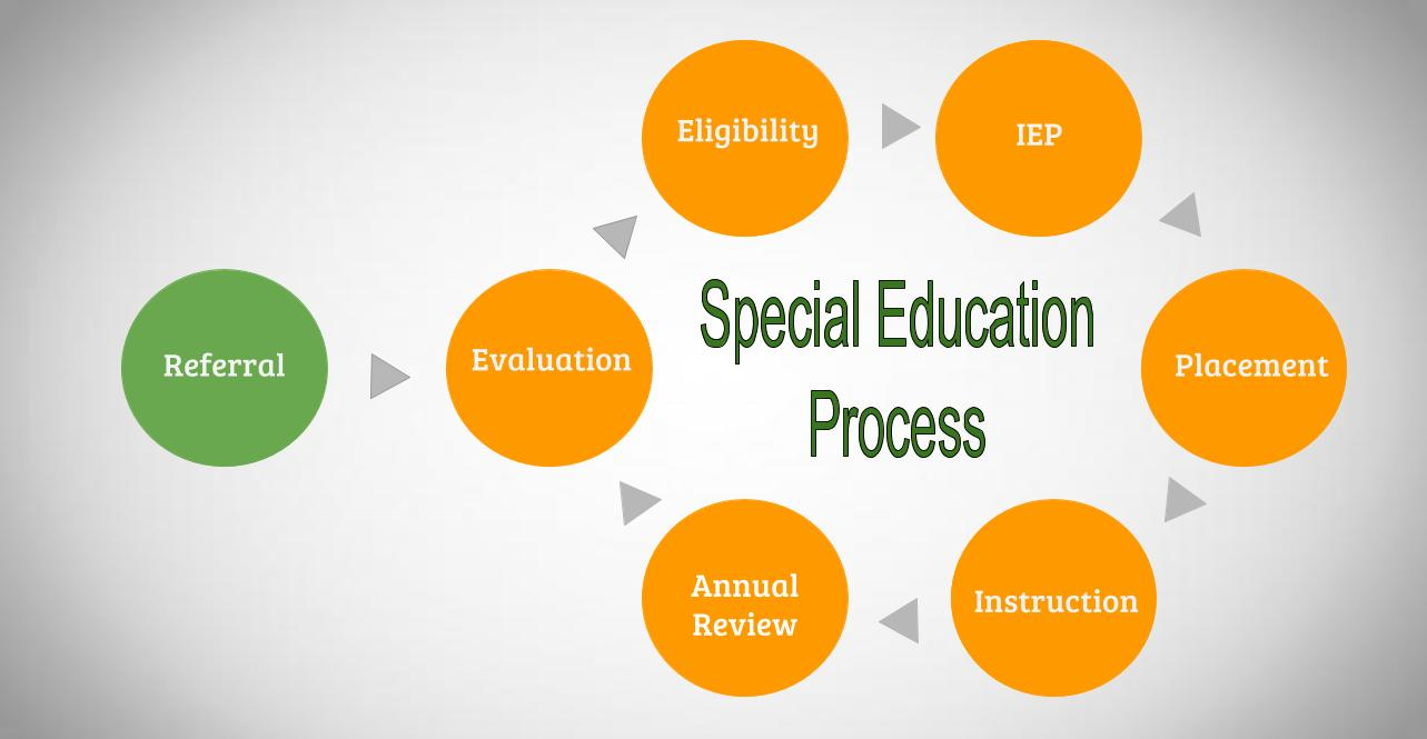 This is the general process that a student must go through to receive special education.